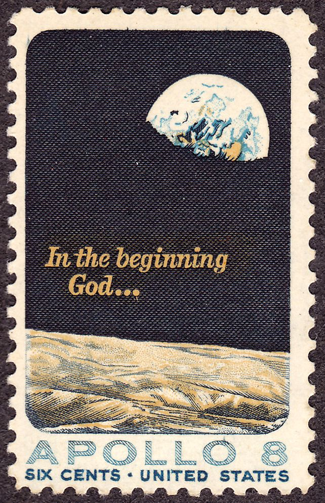 Apollo VIII, 1969 Postage Issue, 6c